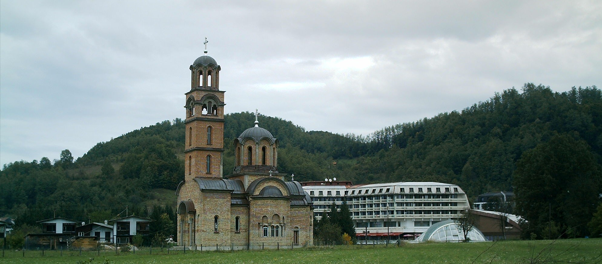 Banja Vrucica, near Teslic, in Republic of Srpska, BA.